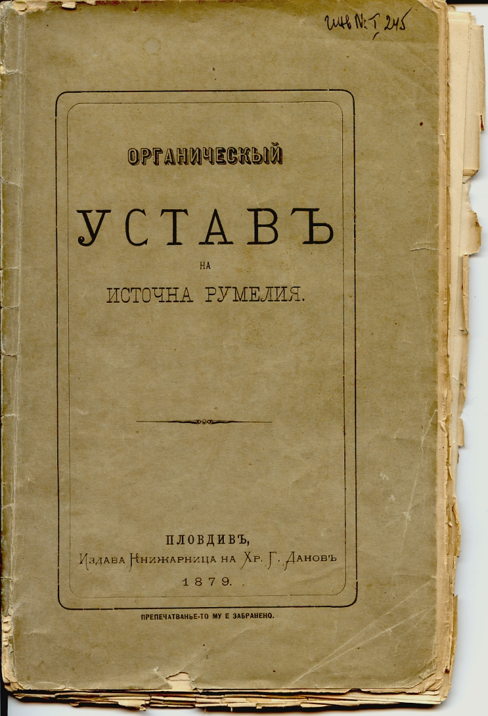 Organic Statute of Eastern Rumelia.